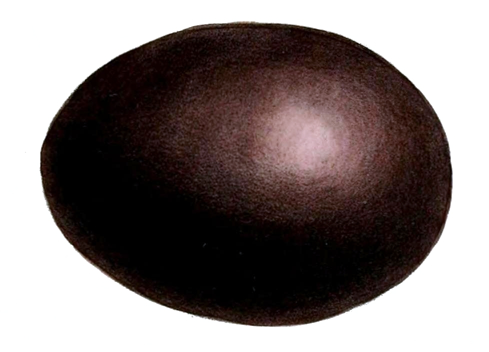 Red-winged Tinamou egg